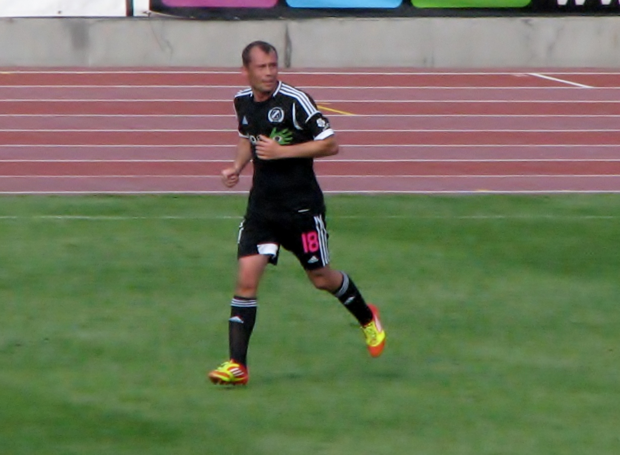 JK Nõmme Kalju player Sergey Terehhov playing against FC Viljandi